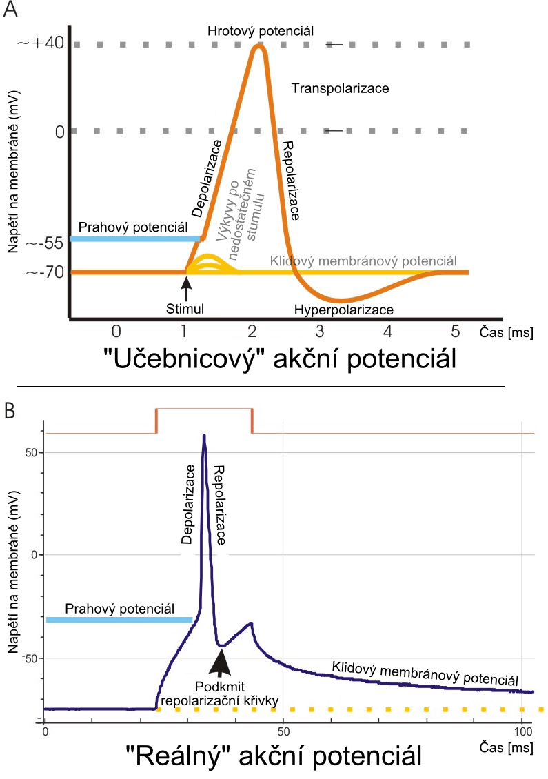 A. Schematic of an electrophysiological recording of an action potential showing the various phases which occur as the wave passes a point on a cell membrane. B. An actual action potential (blue trace) recorded from a mouse hippocampal pyramidal neuron. In this case, the action potential was stimulated by a prolonged pulse of current (brown trace; approx. 2 micro Amps)passed into the cell through the recording electrode. This method of stimulation distorts the AP compared to the schematic, in that the "real" action potential is sitting atop a voltage offset caused by the current pulse. Thus, for example, the "undershoot" is offset from the resting potential, although it would dip below rest if the offset were not present. The slow decline of the membrane potential back toward rest upon the termination of the current pulse reflects the long time constant of the neuronal membrane.